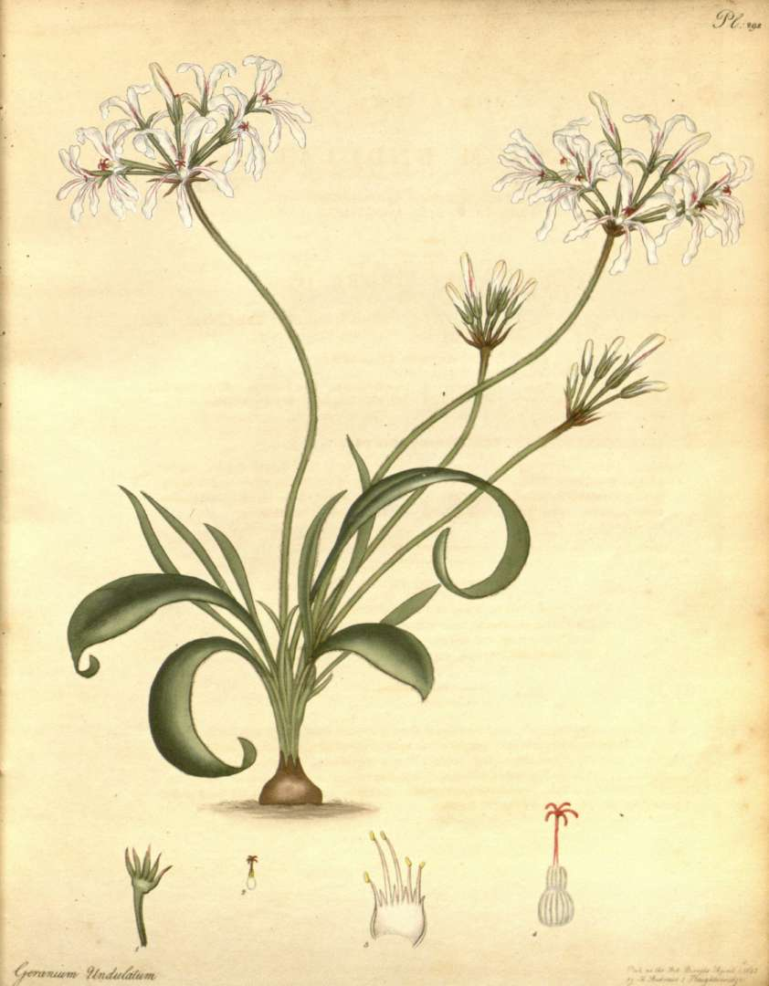 Pelargonium undulatum